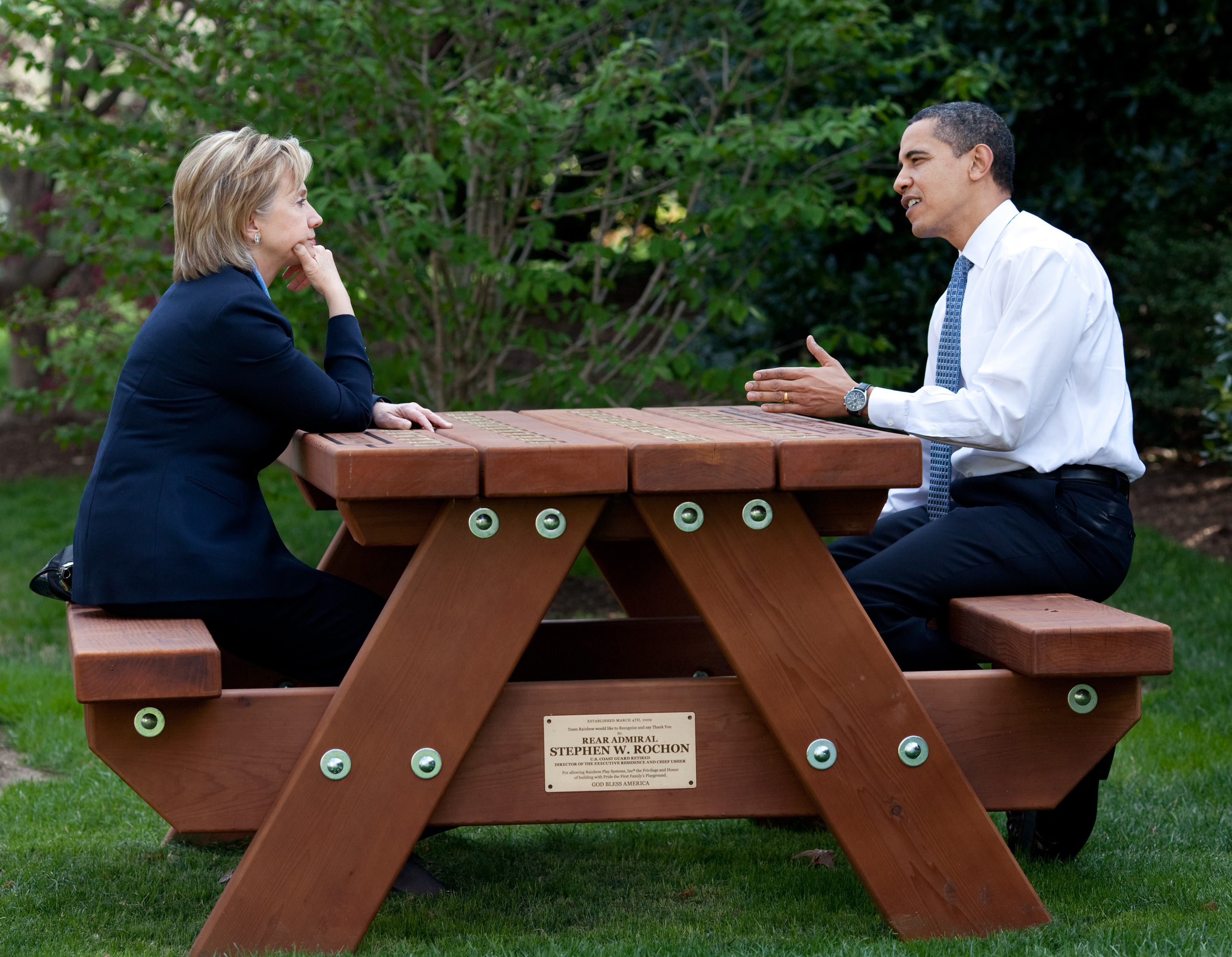 President Barack Obama and Secretary of State Hillary Rodham Clinton speak together sitting at a picnic table April 9, 2009, on the South Lawn of the White House. Official White House Photo by Pete Souza